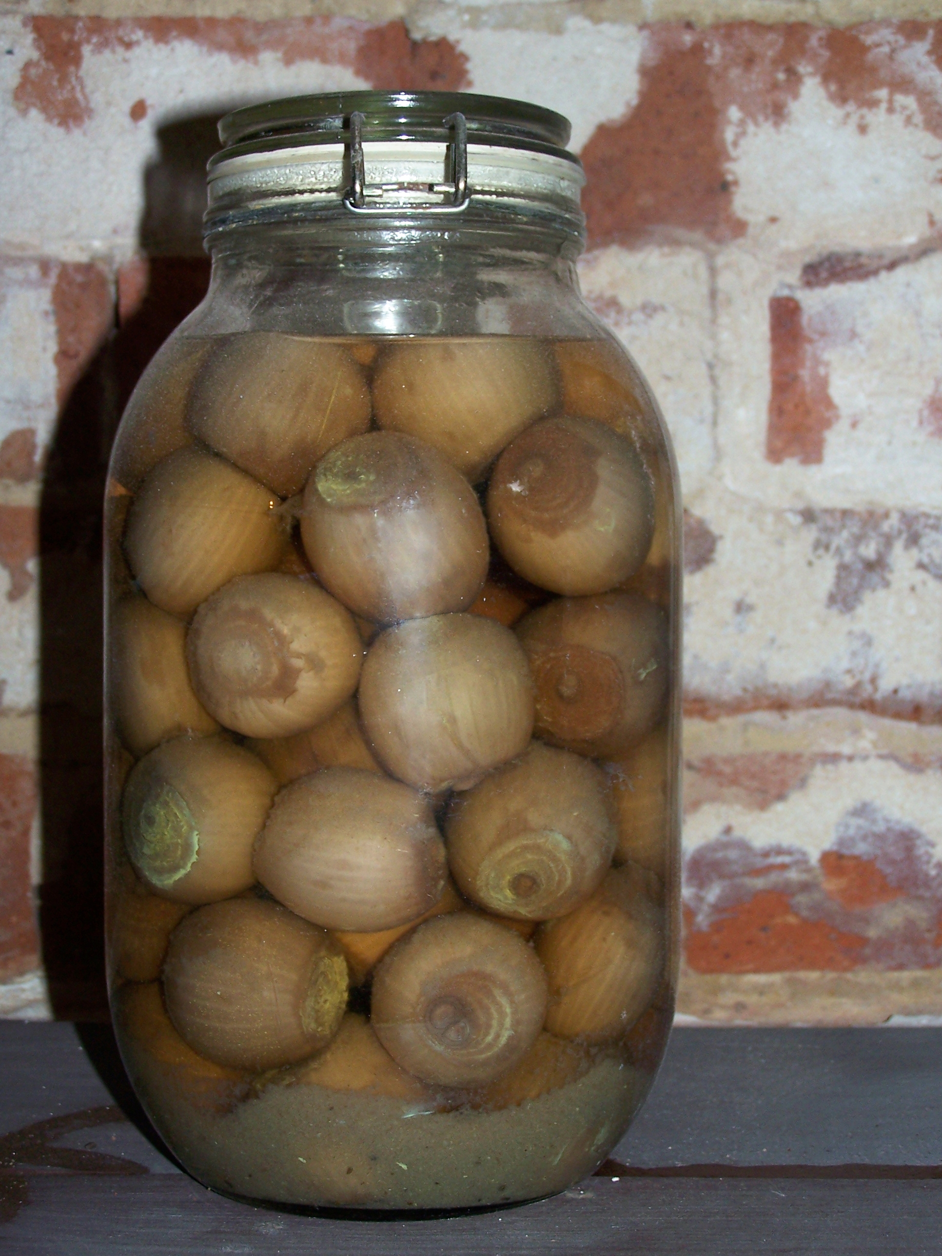 Tranby House jar of pickled onions